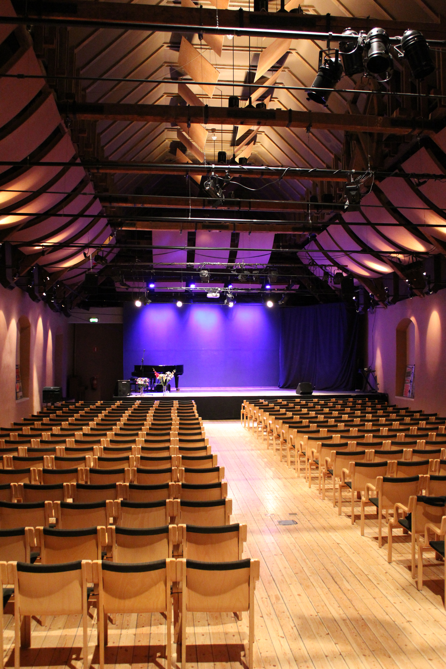 Concert hall, Musik- och teatermuseet, Stockholm